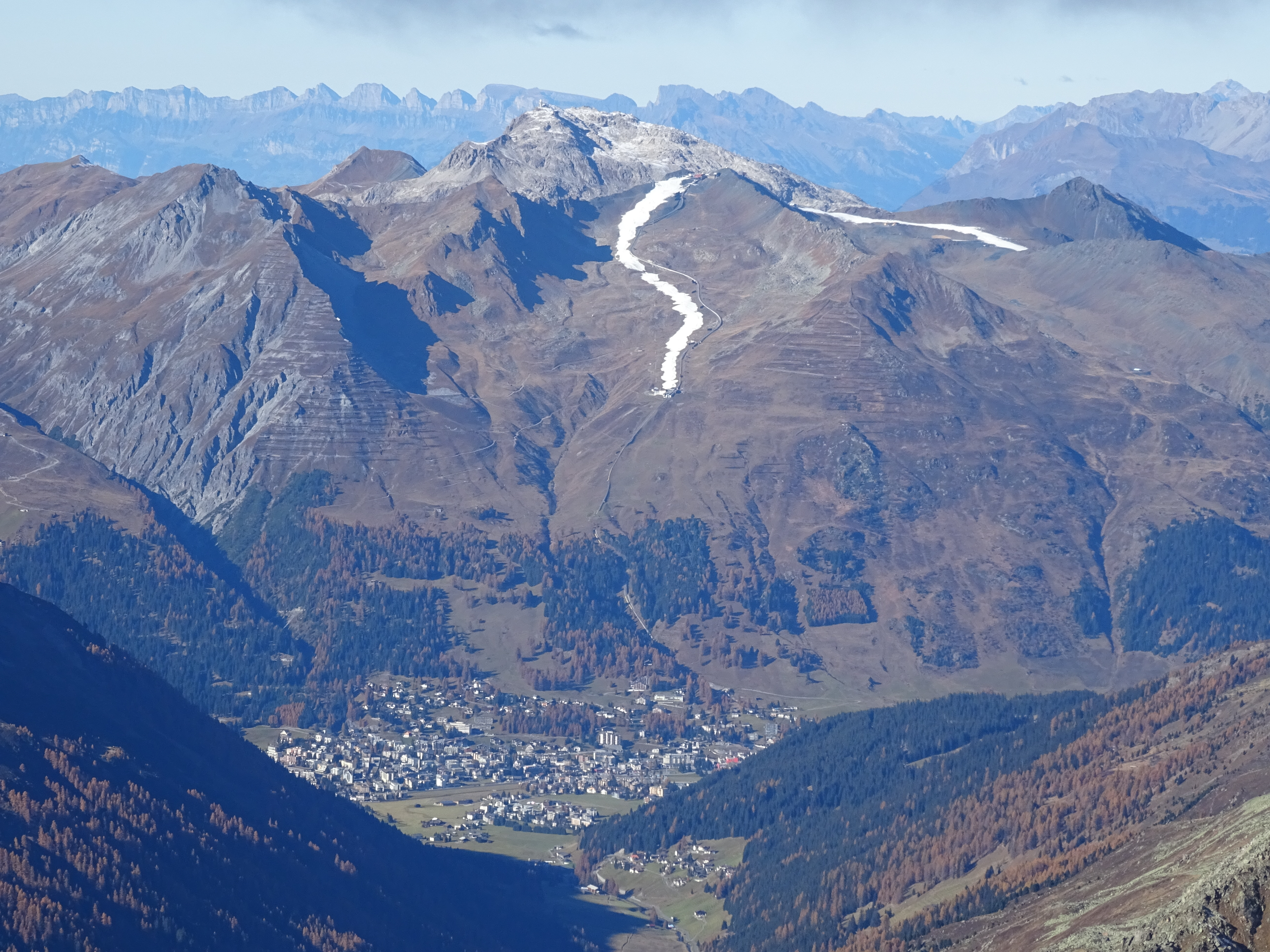 Parsenn with artificial snow and Davos as seen from Schwarzhorn (Davos, Grison, Switzerland)